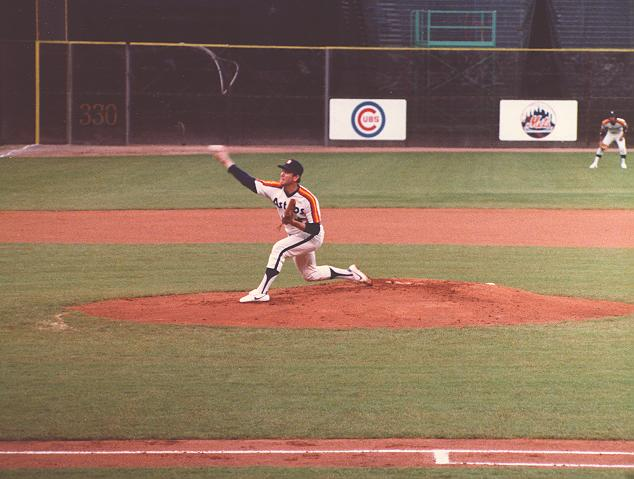 I took this photo of Nolan Ryan of the Houston Astros at Atlanta-Fulton County Stadium on June 28, 1983. In the background is left-fielder Jose Cruz, who Ryan once said was his favorite teammate. The Astros won the game 4-3. Ryan pitched for 8 innings and gave up only 2 hits, both of them homers. [1] 10:50, 7 October 2005 . . Wahkeenah . . 634×479 (45,341 bytes)